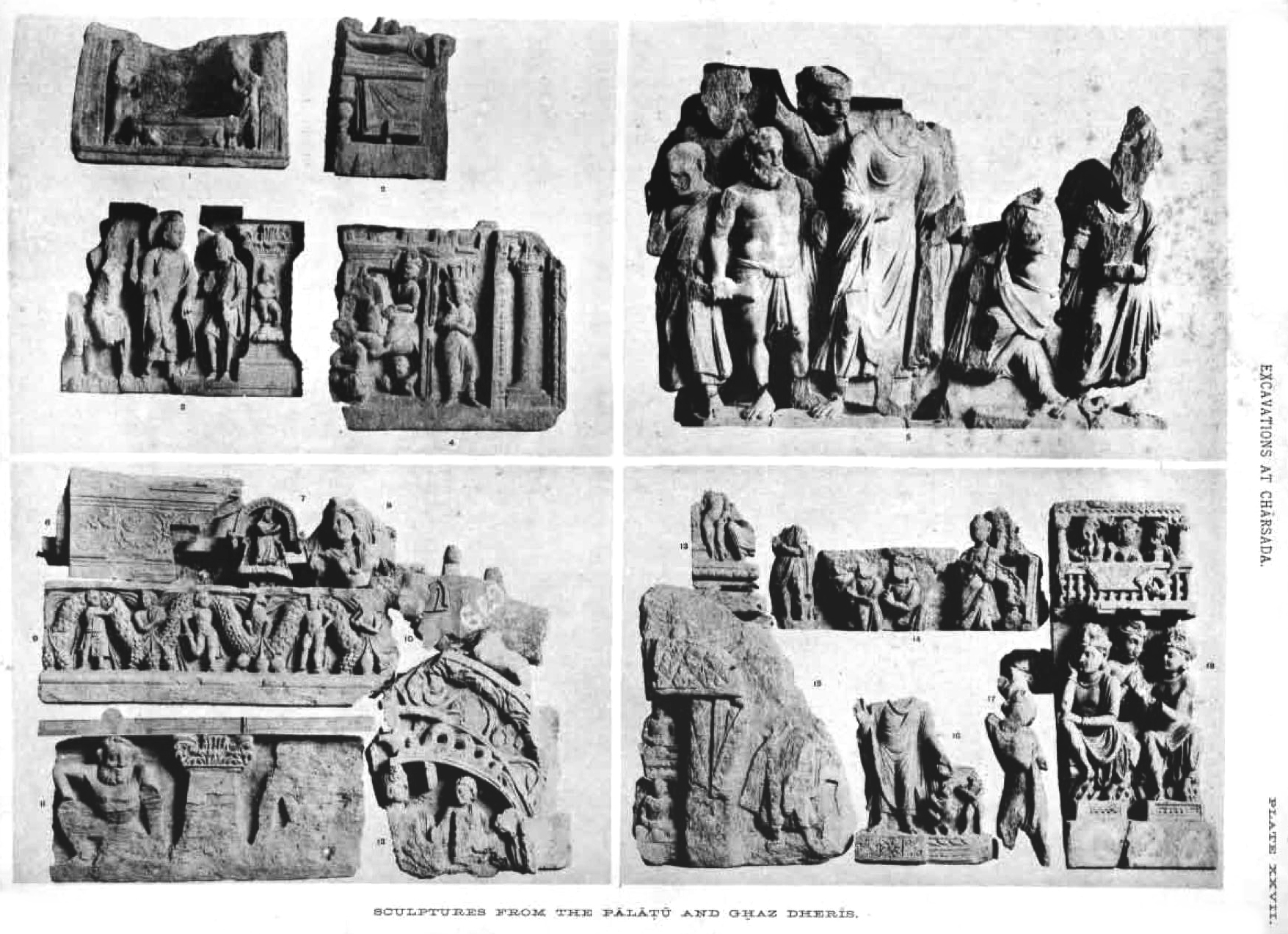 Charsadda Buddhist stuatuary